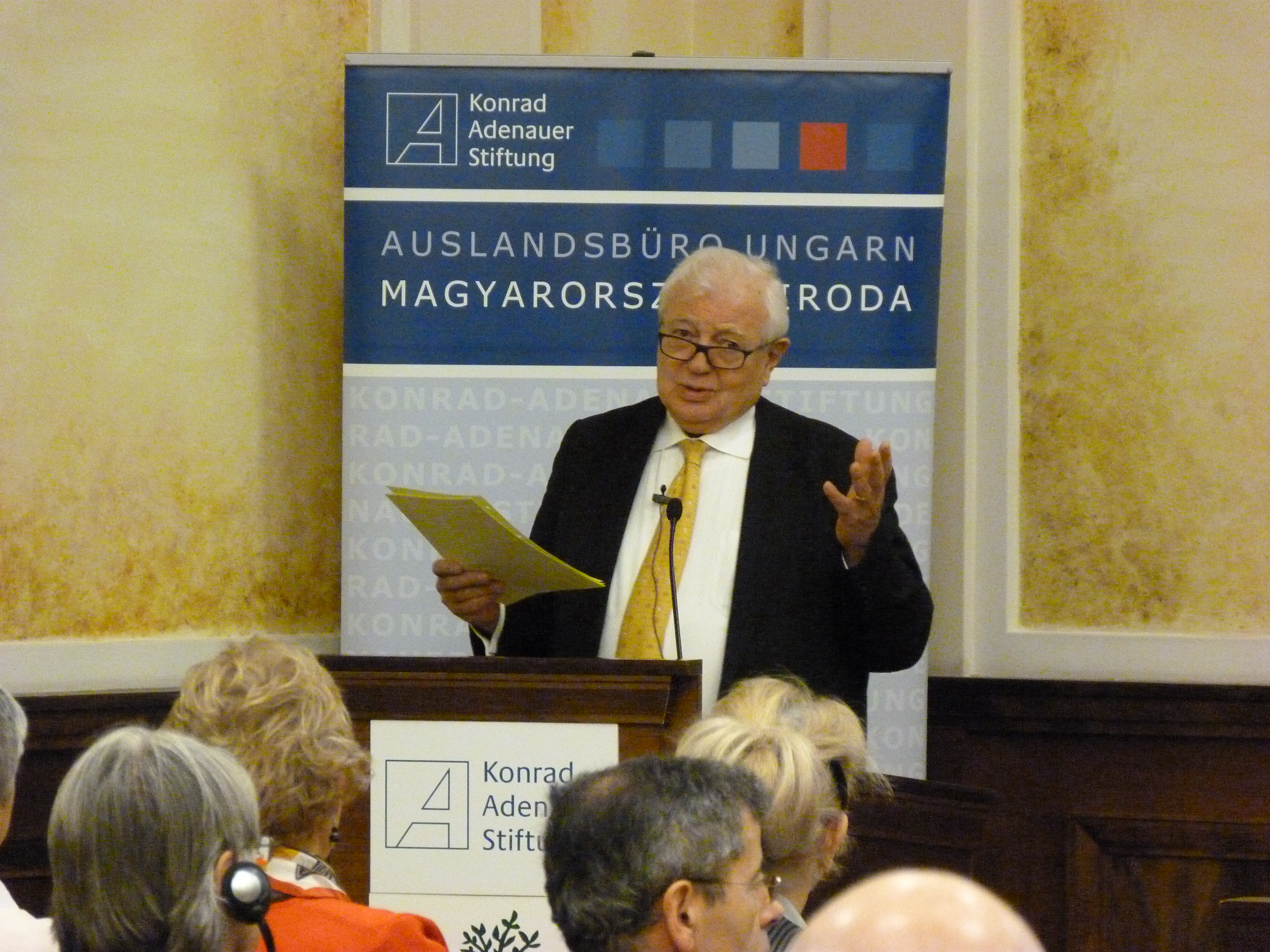 Live on the 4th of March, 2015. Ilter Turan. Corvinus University, Budapest. Konrad Adenauer Stiftung. ©© Derzsi Elekes Andor, Budapest, 2015, Published in the Metapolisz DVD line. You are authorised to use this photo under Creative Commons – even for commercial, for profit purposes. The photo must be attributed to Derzsi Elekes Andor. All of the photos and vids in the Metapolisz DVD line are under Creative Commons and can be used even for commercial – for profit – purposes. Recommended Citation Derzsi Elekes Andor: Metapolisz DVD line